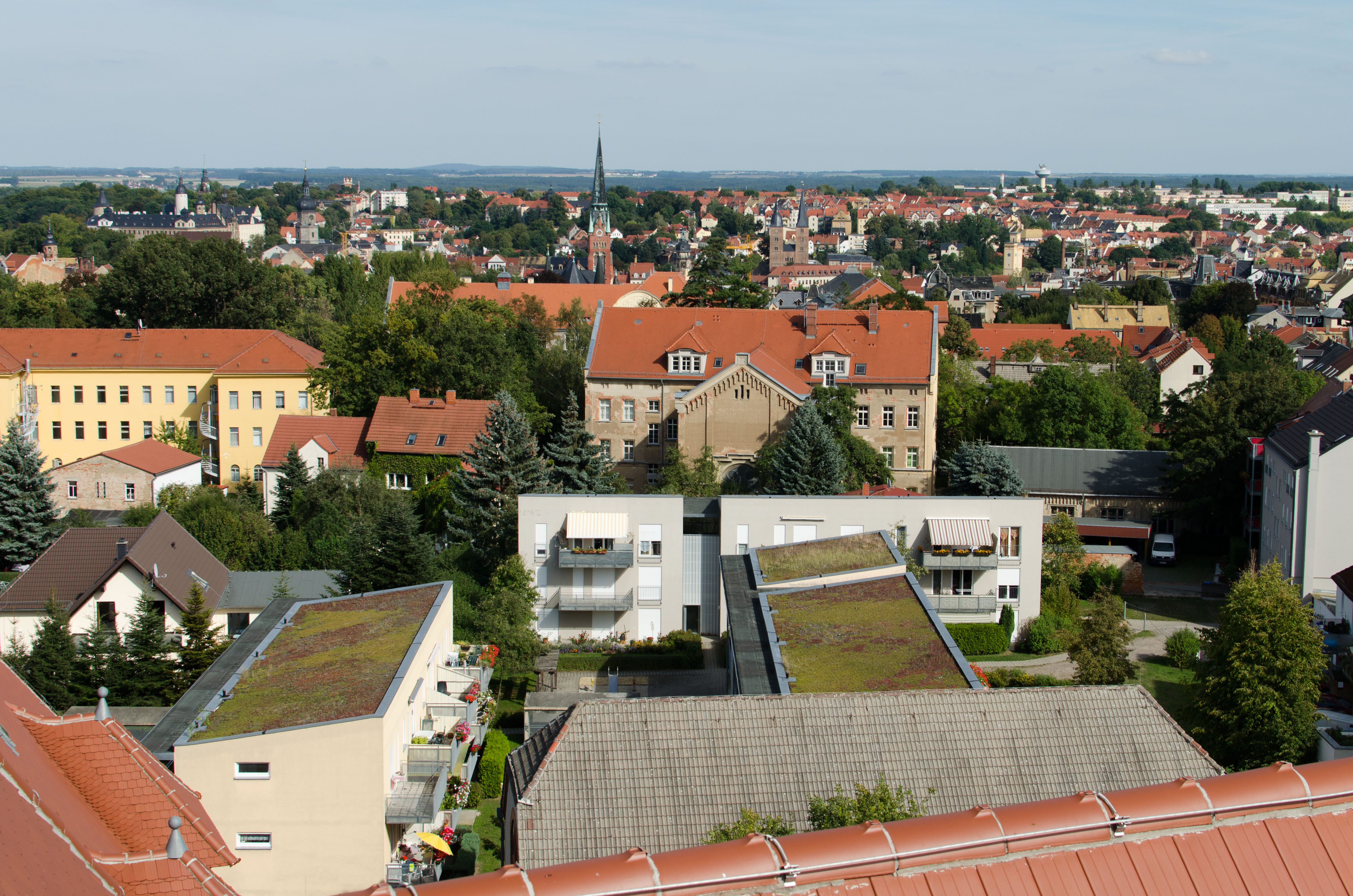 View over the city of Altenburg seen from the observation deck on top of the school. In the picture are a number of landmarks, for example the castle or the Brüderkiche.